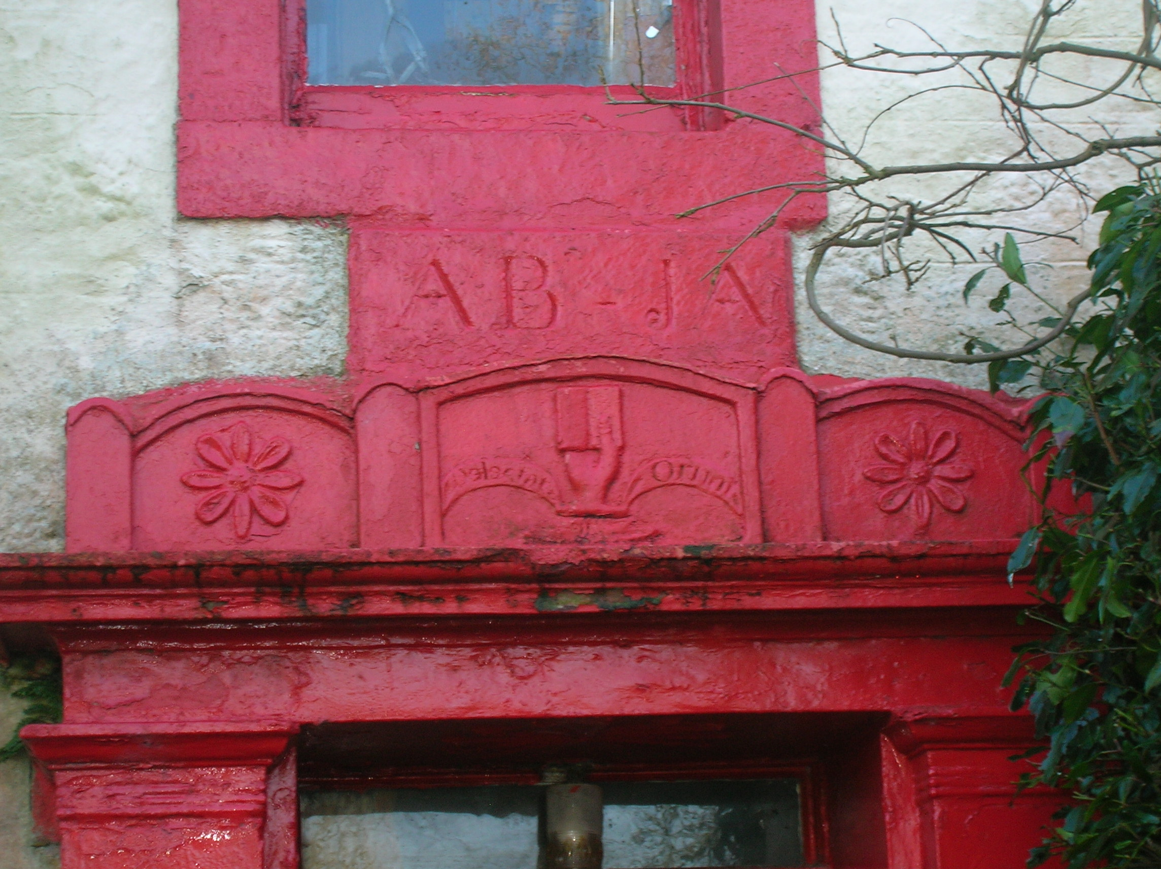 The entrance to 'The Hill' farm with the motto 'Delights and Adorns' & a bible held in a hand. East Ayrshire. Dunlop. 2007.